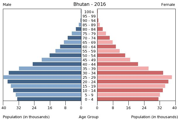 The population pyramid of Bhutan illustrates the age and sex structure of population and may provide insights about political and social stability, as well as economic development. The population is distributed along the horizontal axis, with males shown on the left and females on the right. The male and female populations are broken down into 5-year age groups represented as horizontal bars along the vertical axis, with the youngest age groups at the bottom and the oldest at the top. The shape of the population pyramid gradually evolves over time based on fertility, mortality, and international migration trends.